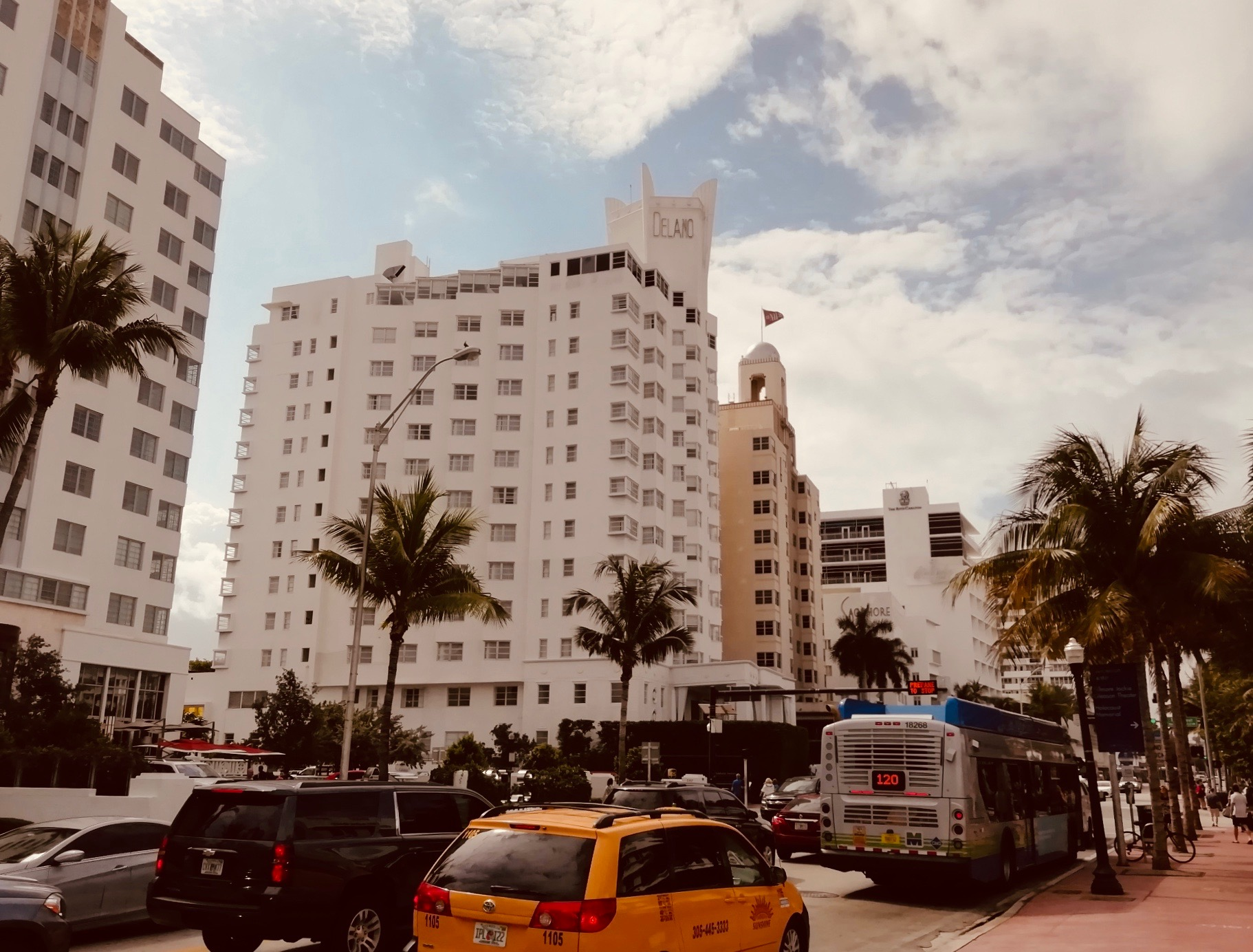 The Delano Hotel, South Beach, Miami